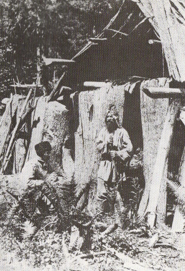 Photograph of Russian peasant/worker